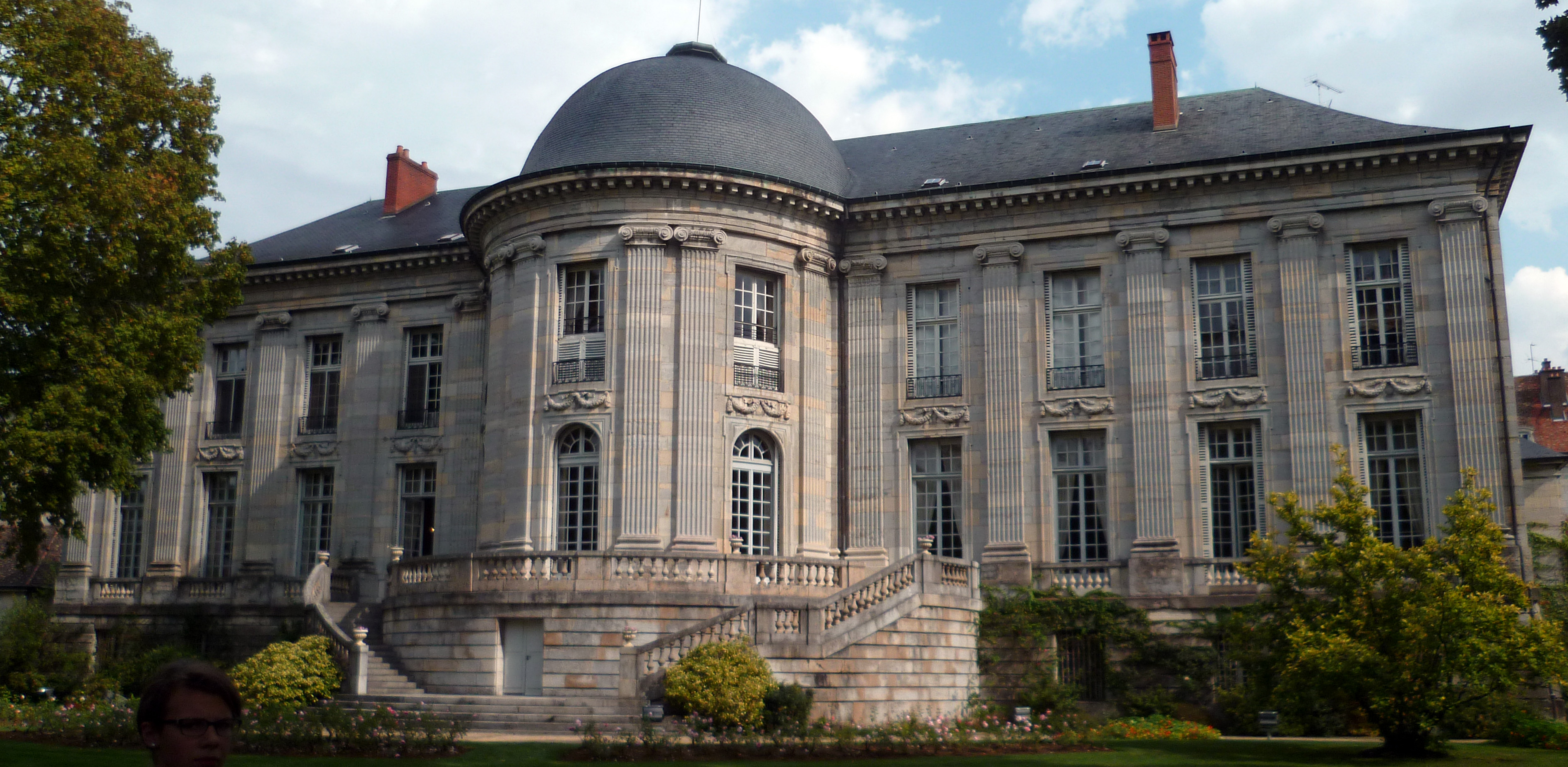 Intendance (new Préfecture), Besançon, garden facade, designed by French architect Victor Louis